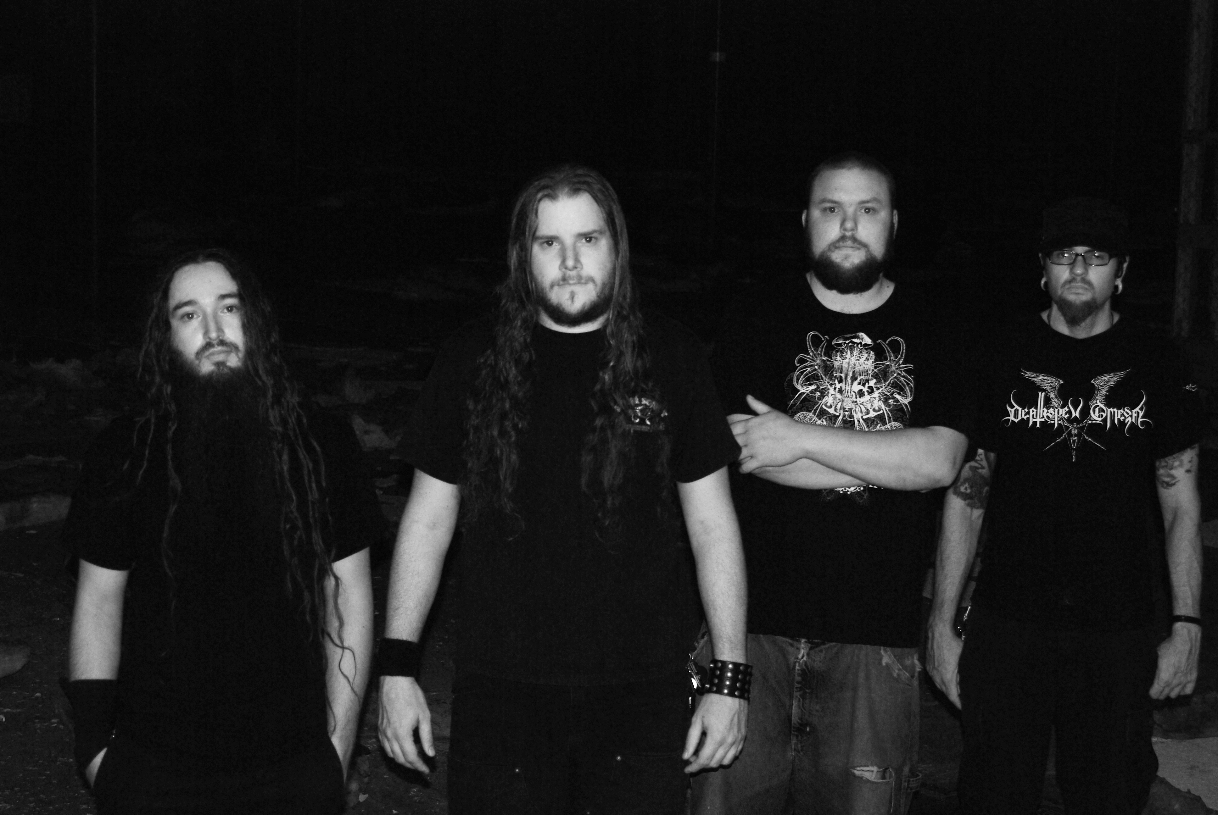 Promo pic June 2008 by TRON